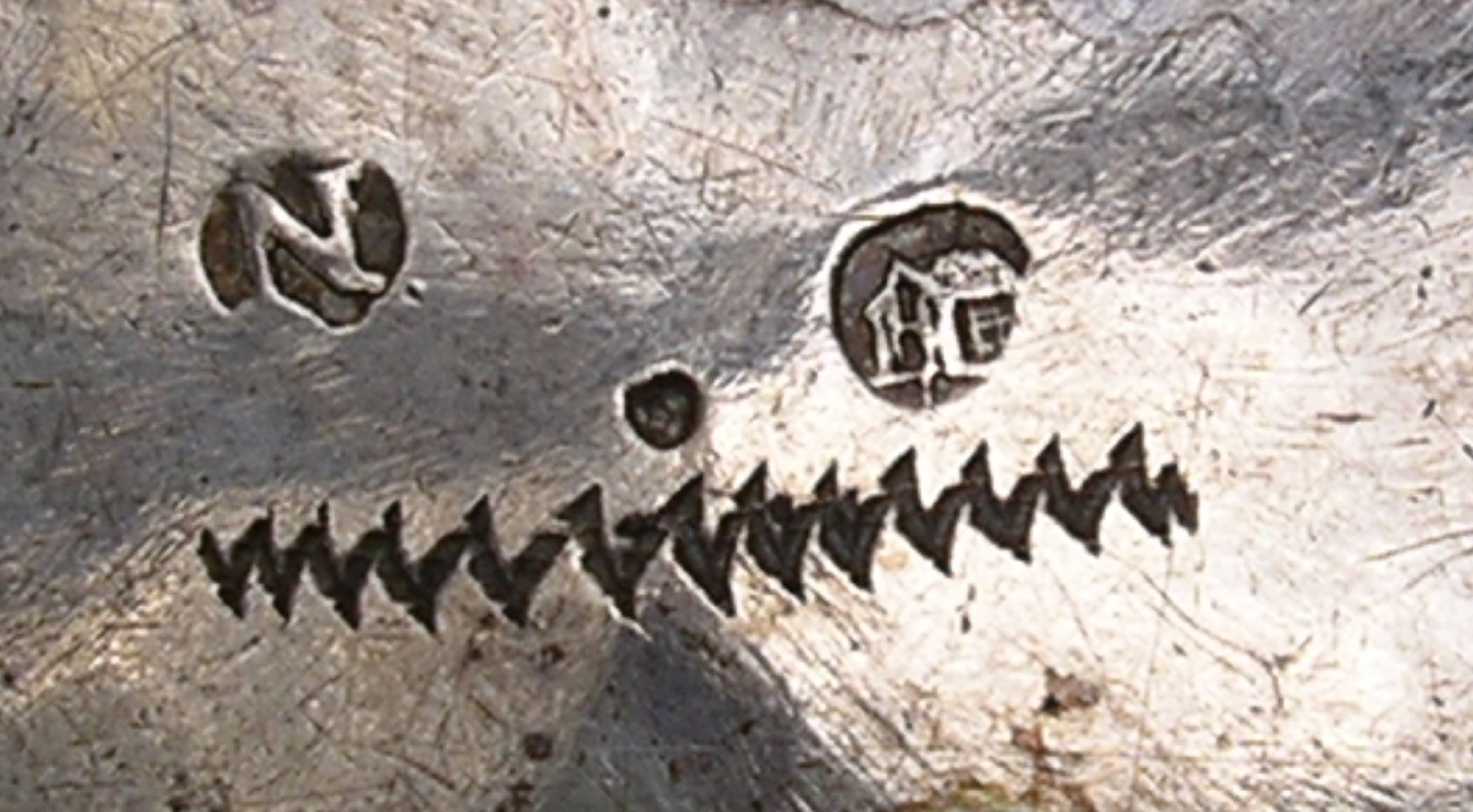 "Tremolierstich" from an Nuremberg Silver beaker, 1662